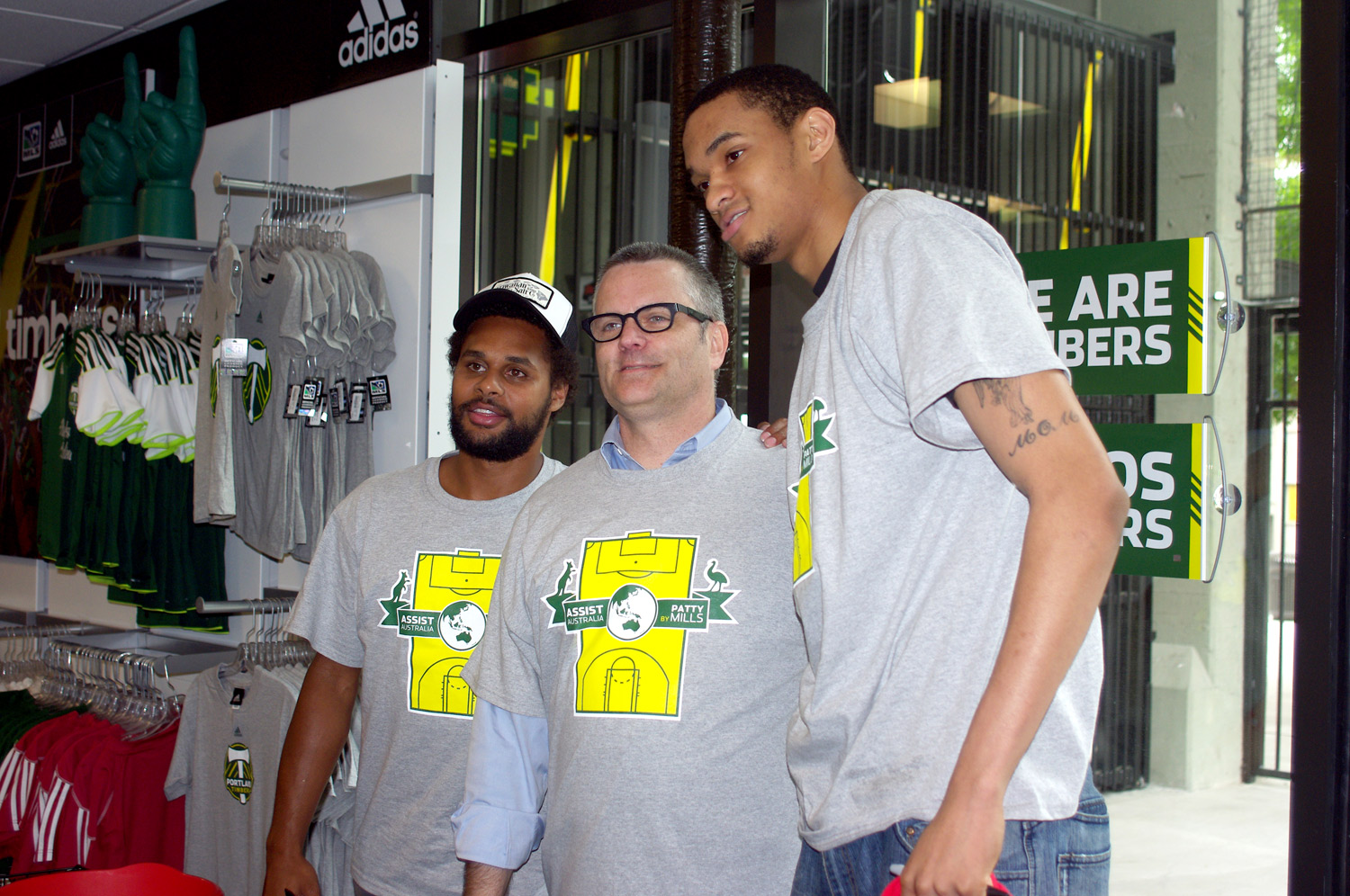 Portland Trail Blazers players Patrick Mills and Chris Johnson, "assisting in raising funds for the flood victims of Australia," pose with Portland, Oregon mayor Sam Adams.